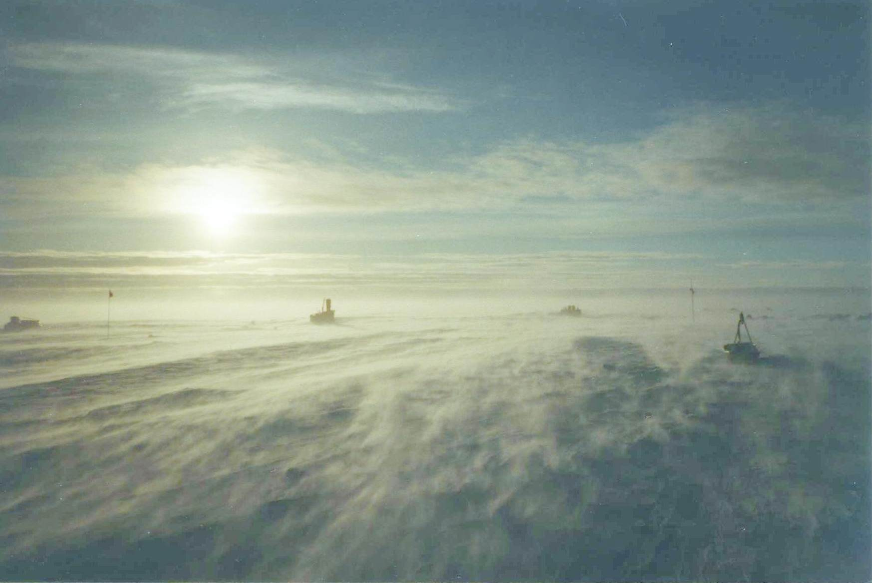 View over the greenlandic ice sheet shortly after a snow storm at Camp Raven